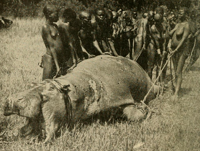 Ugandan tribesmen dragging a hippo shot six times in the head to their village for food